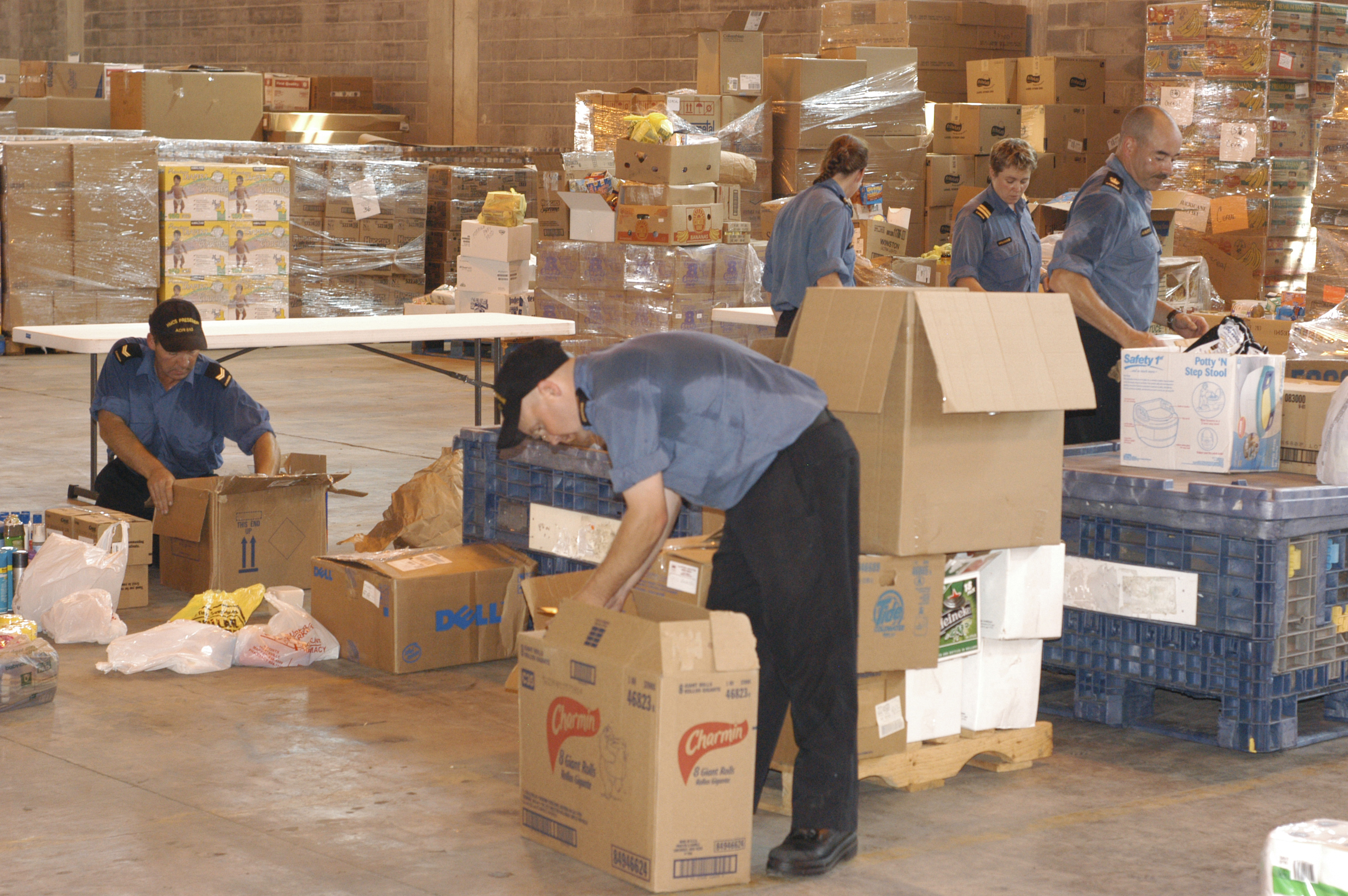 Biloxi, Miss. (Sept. 16, 2005) - Canadian Sailors assigned to the patrol frigate HMCS Toronto (FFH 333) sort boxes of relief supplies at a Salvation Army warehouse managed by the Federal Emergency Management Agency (FEMA). Canadian Navy and U.S. military forces are working together to aid in Hurricane Katrina disaster relief efforts. The U.S. Navy's involvement in the humanitarian assistance operations are being led by the Federal Emergency Management Agency (FEMA), in conjunction with the Department of Defense. U.S. Navy photo by Photographer’s Mate Airman Apprentice Stephen Oleksiak (RELEASED)